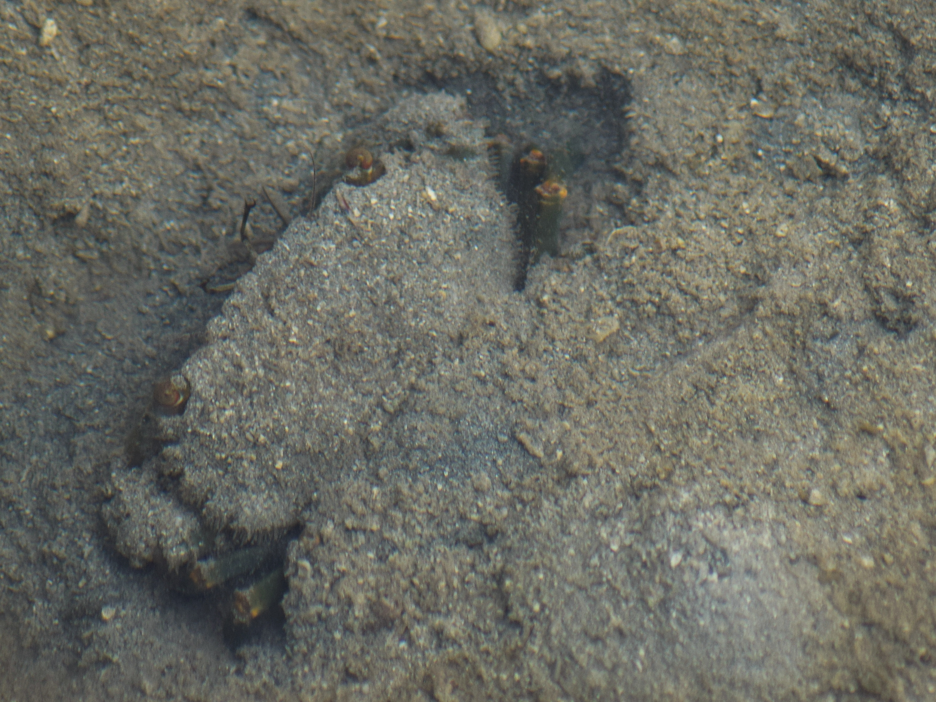 Powder blue-clawed swimming crab (Thalamita crenata); buried itself in it's habitat, sandy mudflat. From Karimunjawa Nat. Park, Central Java, Indonesia.